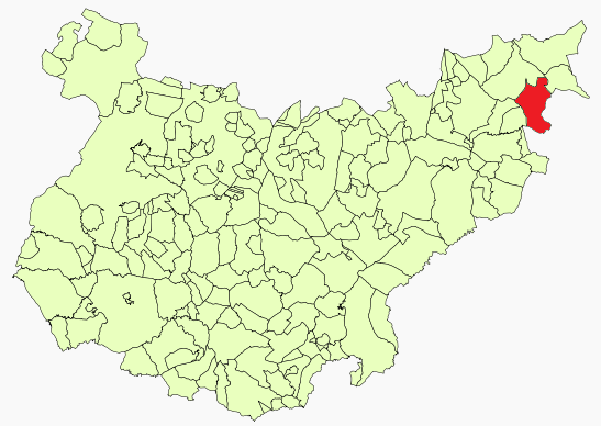 Fuenlabrada de los Montes